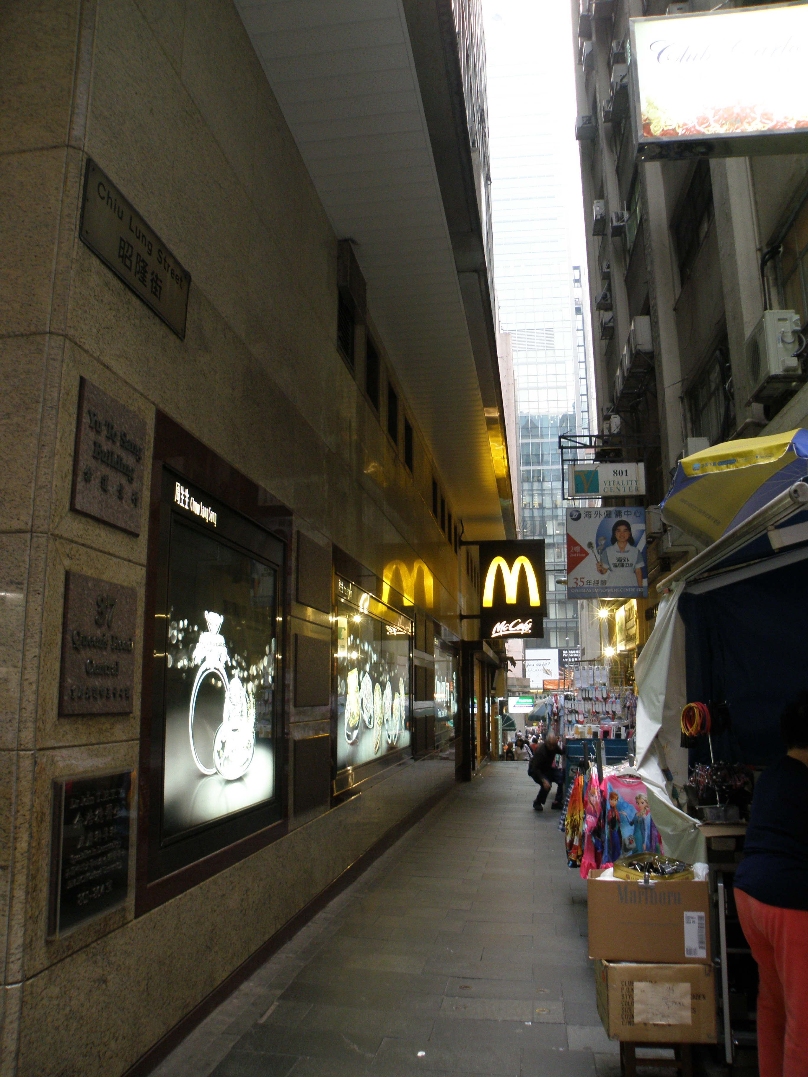 Chiu Lung Street in Central, Hong Kong.